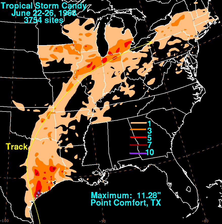 Storm total rainfall map of Tropical Storm Candy during June 1968.